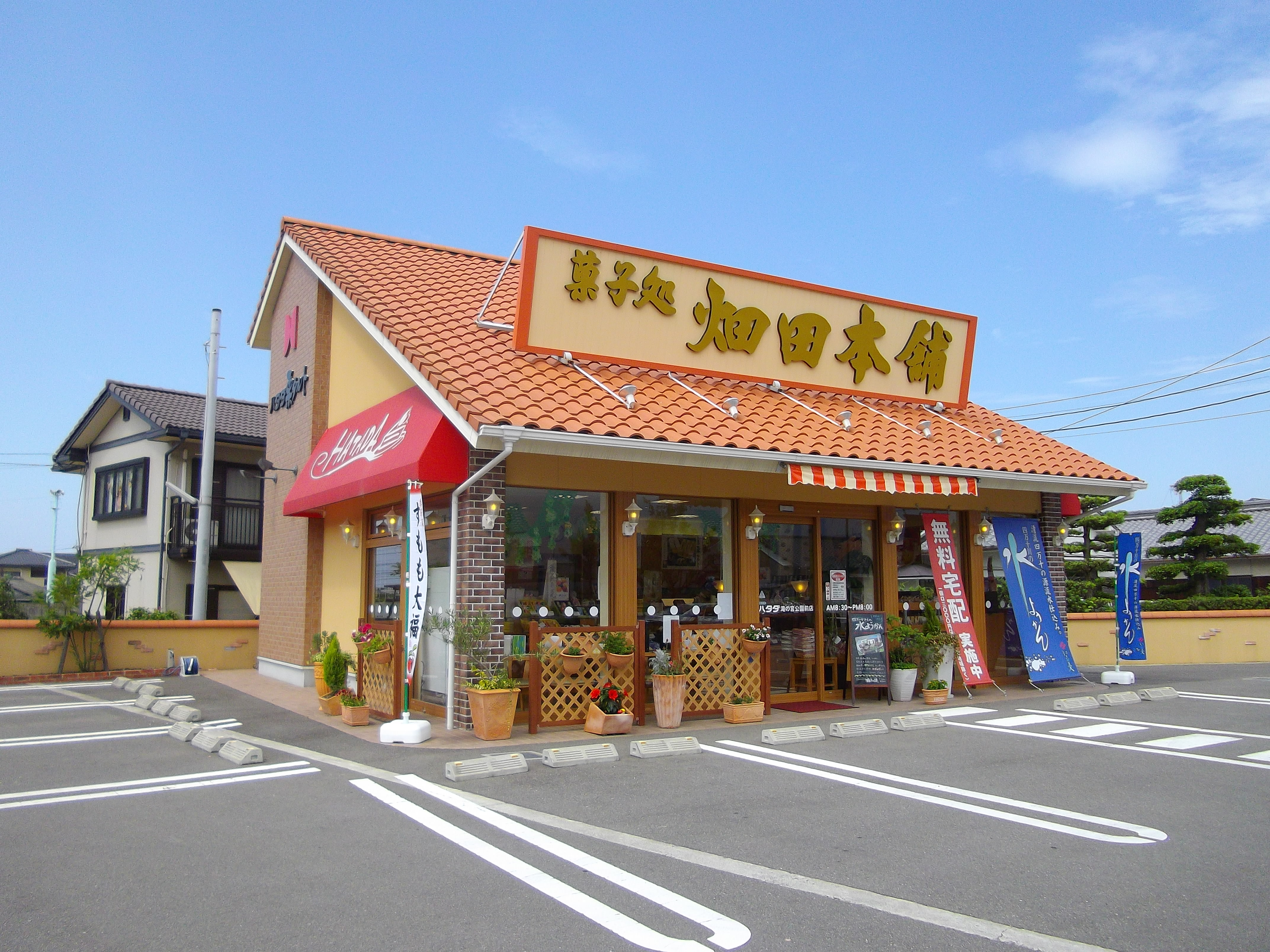 Hatada Takinomiya Park-mae Shop in Niihama city, Ehime prefecture, Japan.